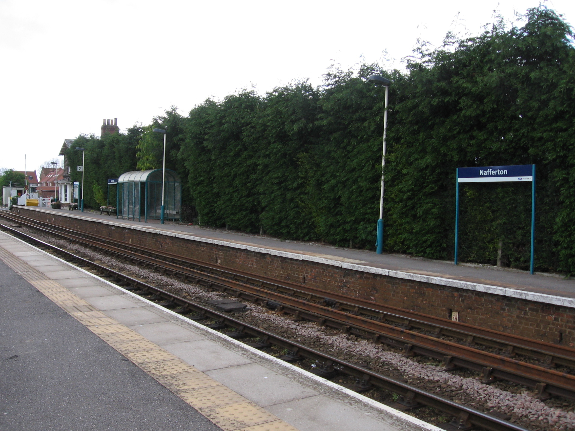 Nafferton railway station, Nafferton, East Riding of Yorkshire, England. Photo taken by me on 06 May 2007.